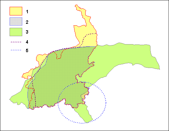 A comparison of definitions of "Lèmbörgs" dialect